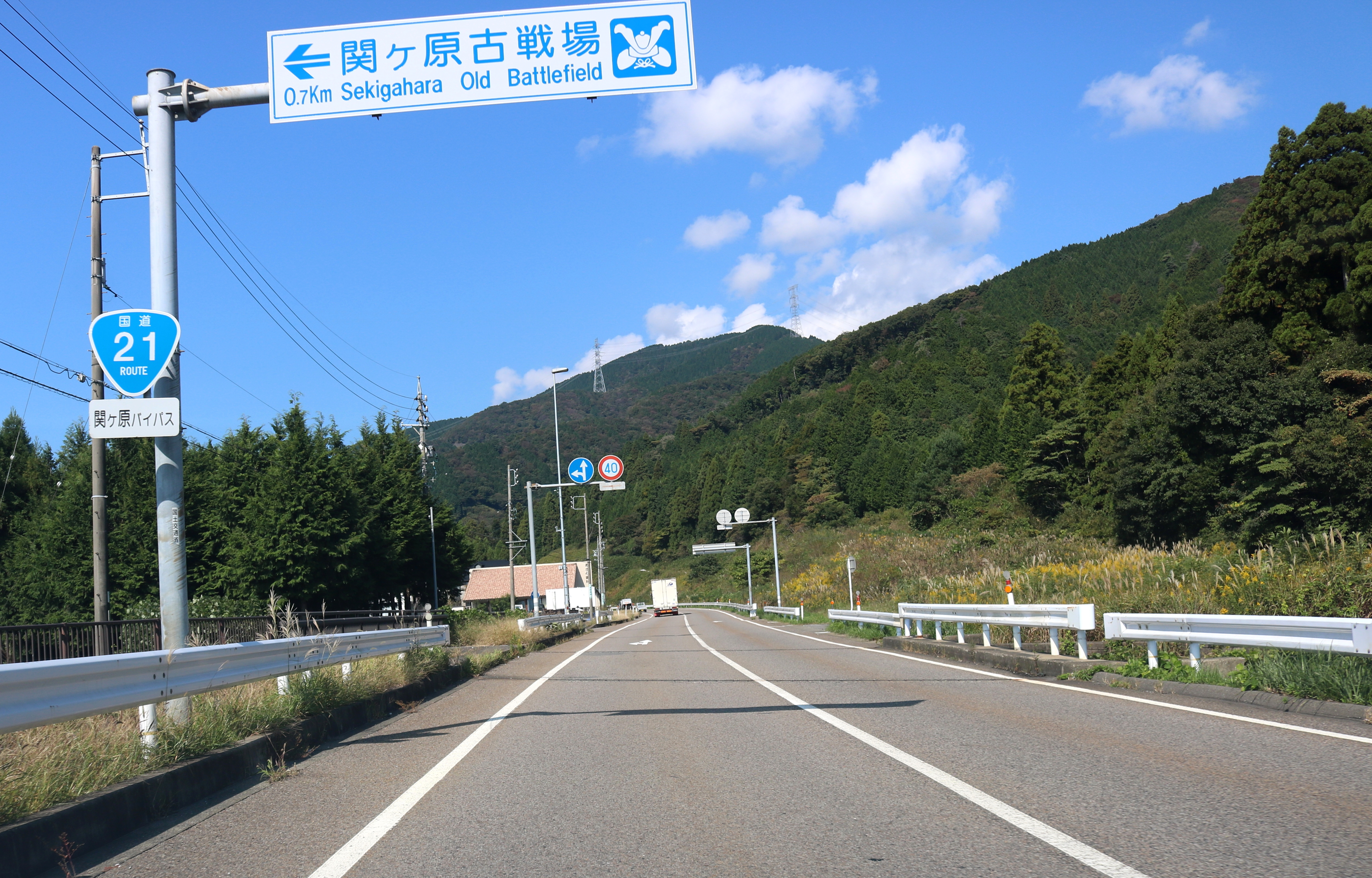 Sekigahara Bypass (Route 21) in Sekigahara, Gifu Prefecure, Japan. Canon EOS Kiss X8i